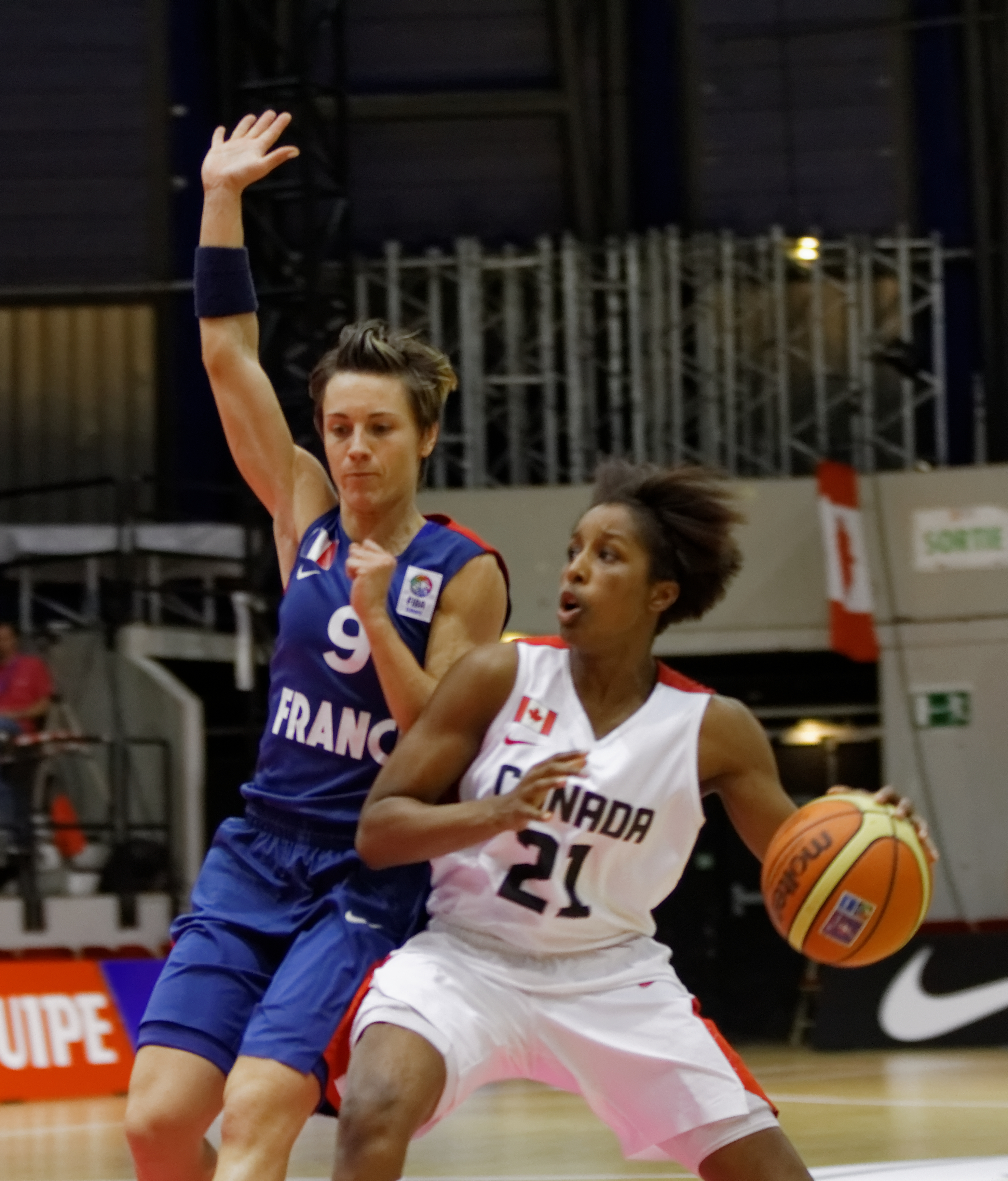 EuroEssonne, France - Canada, 7 June 2013.